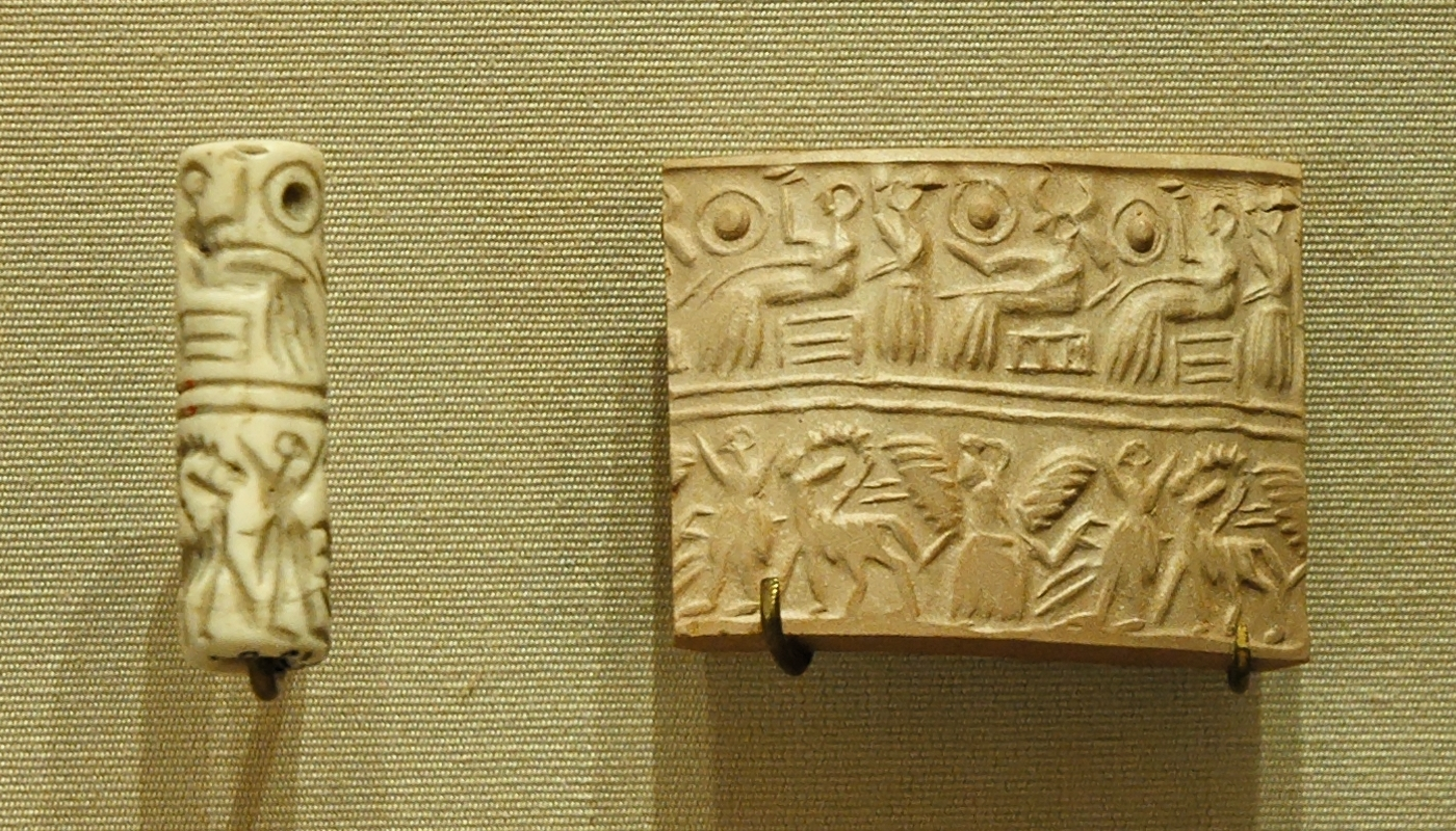 Limestone cylinder seal and impression on clay: Cult scenes involving mythological figures. Early Dynastic III (ca. 2600–2340 BCE), archaic Mesopotamia.